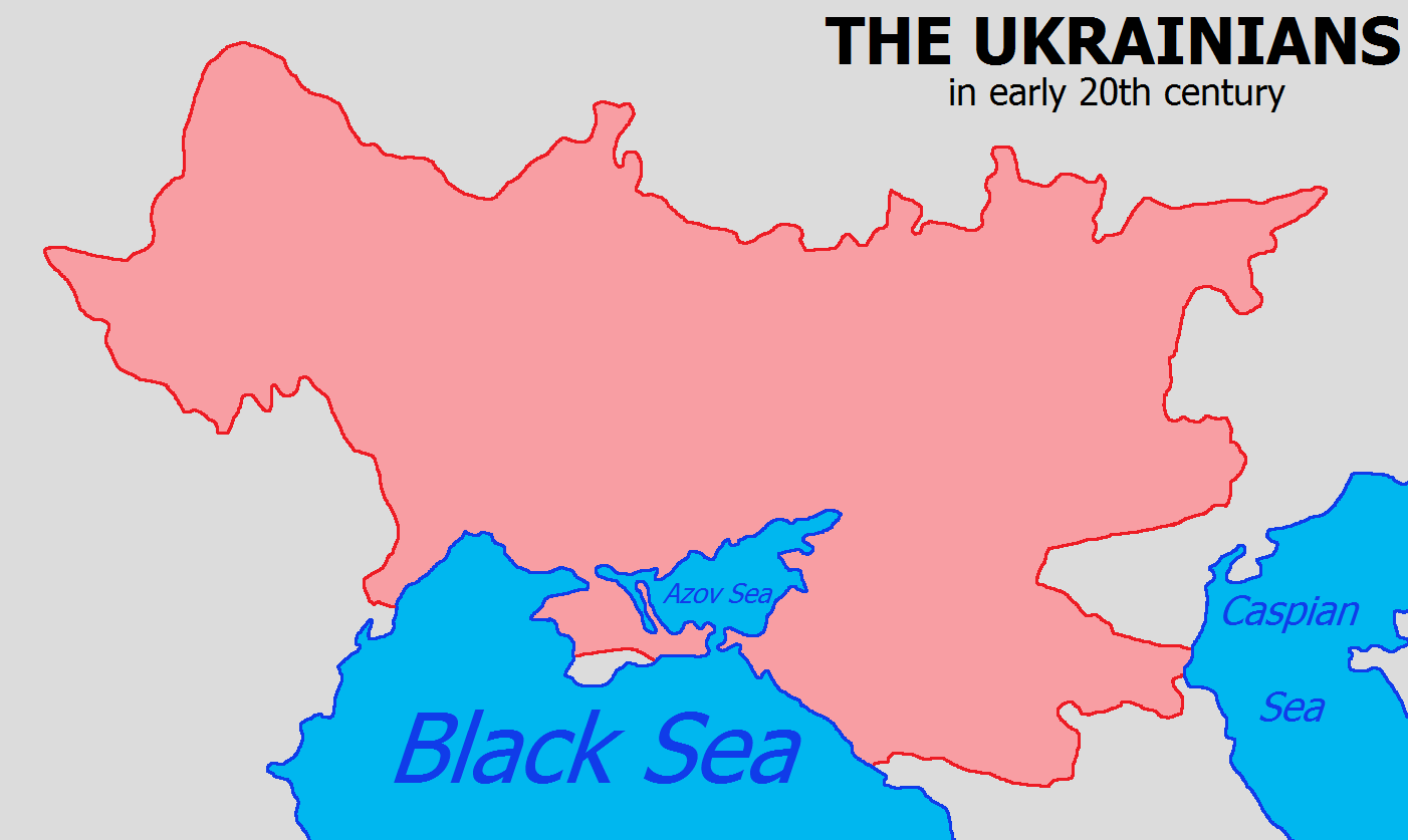 Ethnic Ukrainians in the early 20th century according to Ukrainian postcard from 1919.